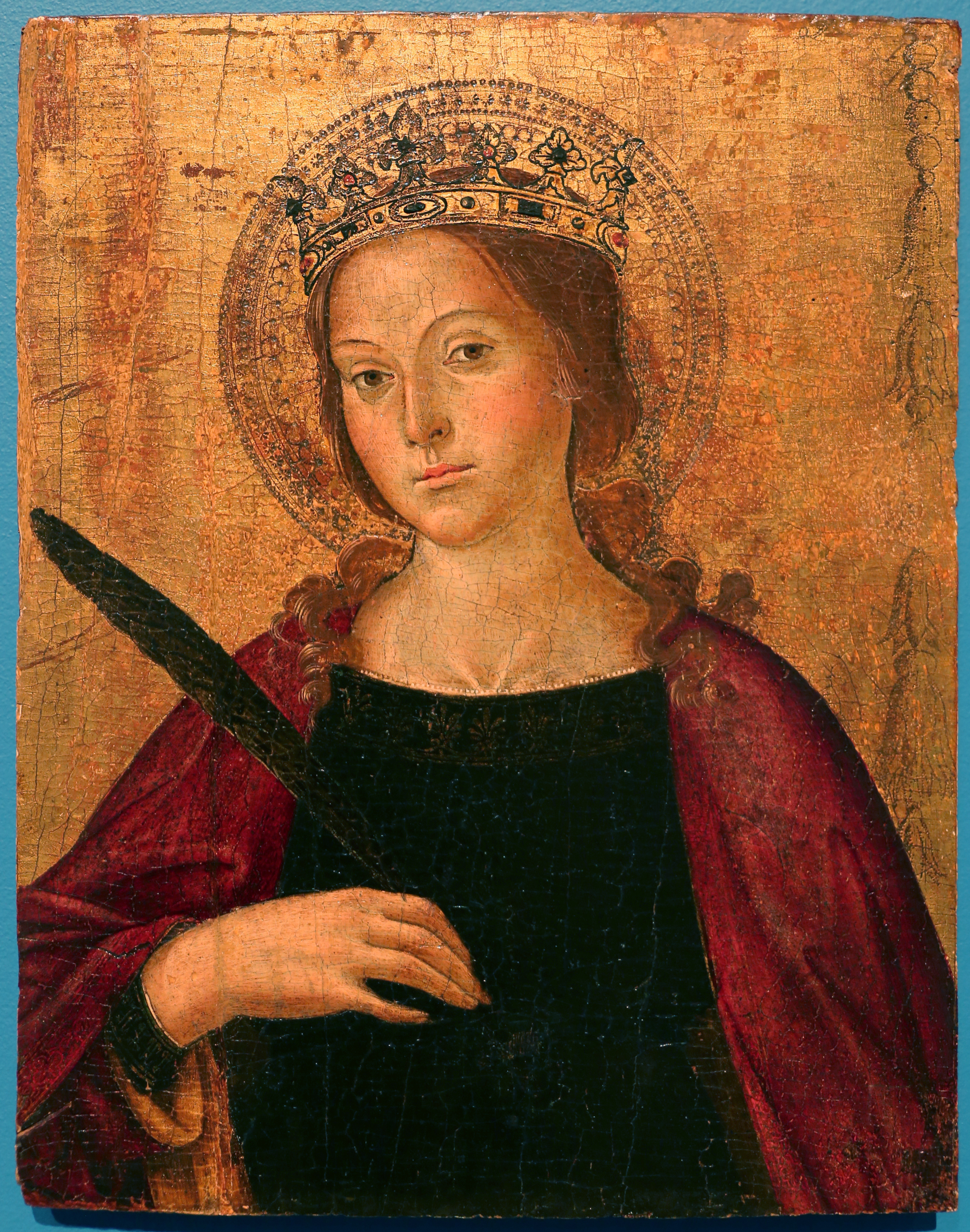 Capolavori Sibillini (2017-2018 exhibition)